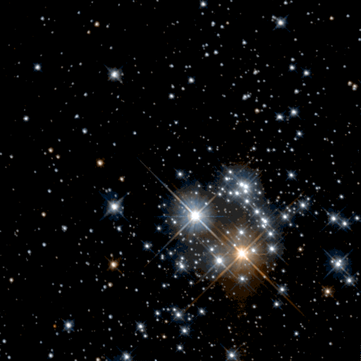 Color rendering is done by by Aladin-software (2000A&AS..143...33B.)